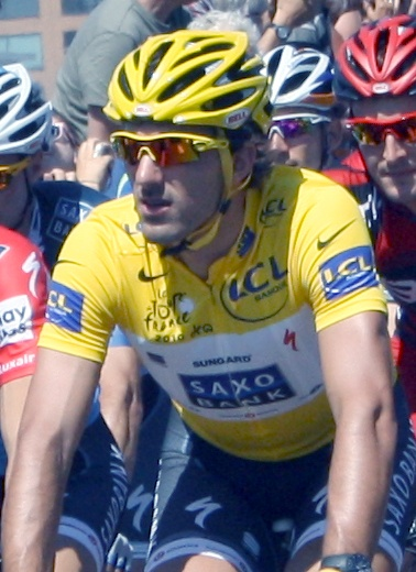 Fabian Cancellara at the start of the first stage of the 2010 Tour de France in Rotterdam